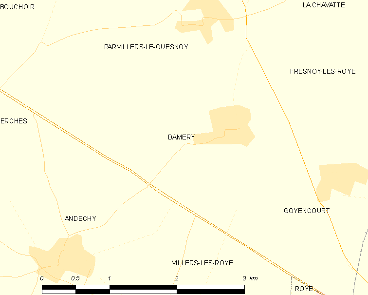 Map of French municipality Damery